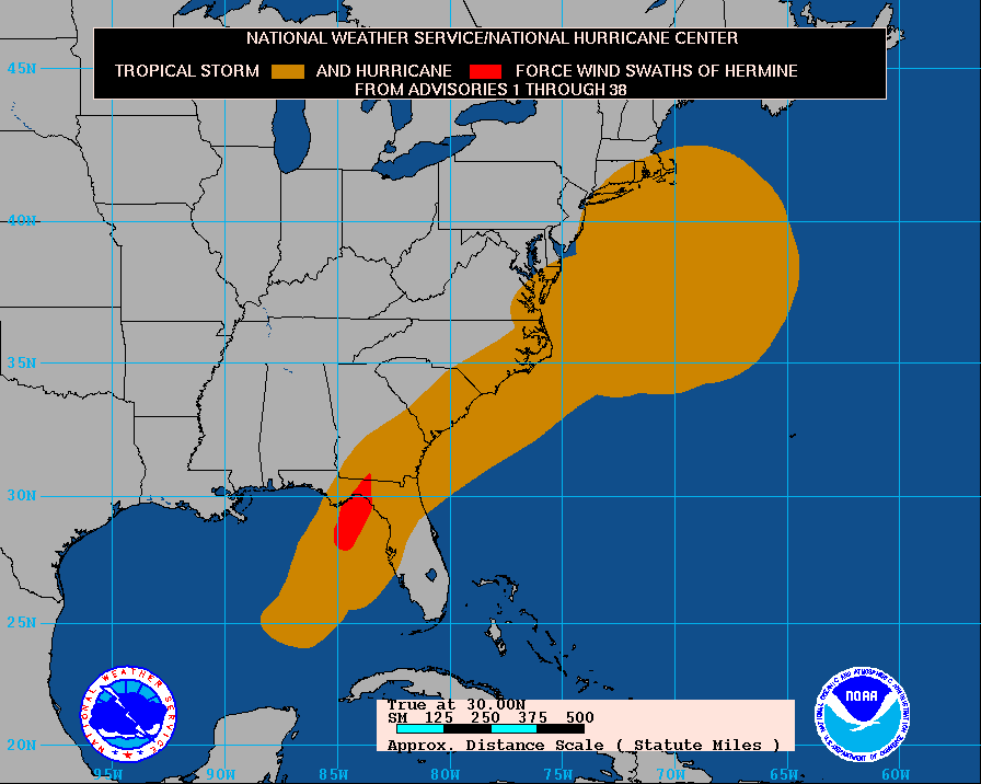 Wind history of Hurricane Hermine from National Hurricane Center Advisories 1 (August 28) through 38 (September 6), although there was no history of tropical storm force winds until Advisory 13 on August 31. The storm still had tropical storm force winds at the time of the final advisory, Advisory 38, on September 6. It was downgraded to a post-tropical cyclone on September 3 (Advisory 25). Thus this graphic is neither a complete wind history of the storm across its lifespan nor solely a wind history of the storm while it was a tropical cyclone. According to the NHC, the wind history graphic "shows how the size of the storm has changed, and the areas potentially affected so far by sustained winds of tropical storm force (in orange) and hurricane force (in red). The display is based on the wind radii contained in the set of Forecast/Advisories indicated at the top of the figure. Users are reminded that the Forecast/Advisory wind radii represent the maximum possible extent of a given wind speed within particular quadrants around the tropical cyclone. As a result, not all locations falling within the orange or red swaths will have experienced sustained tropical storm or hurricane force winds, respectively."